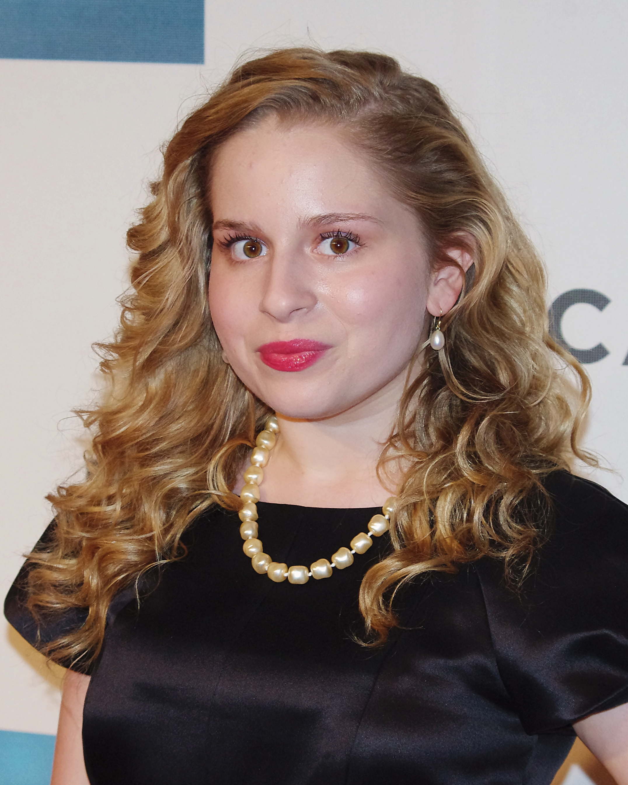 Allie Grant at the 2012 Tribeca Film Festival premiere of Struck by Lightning